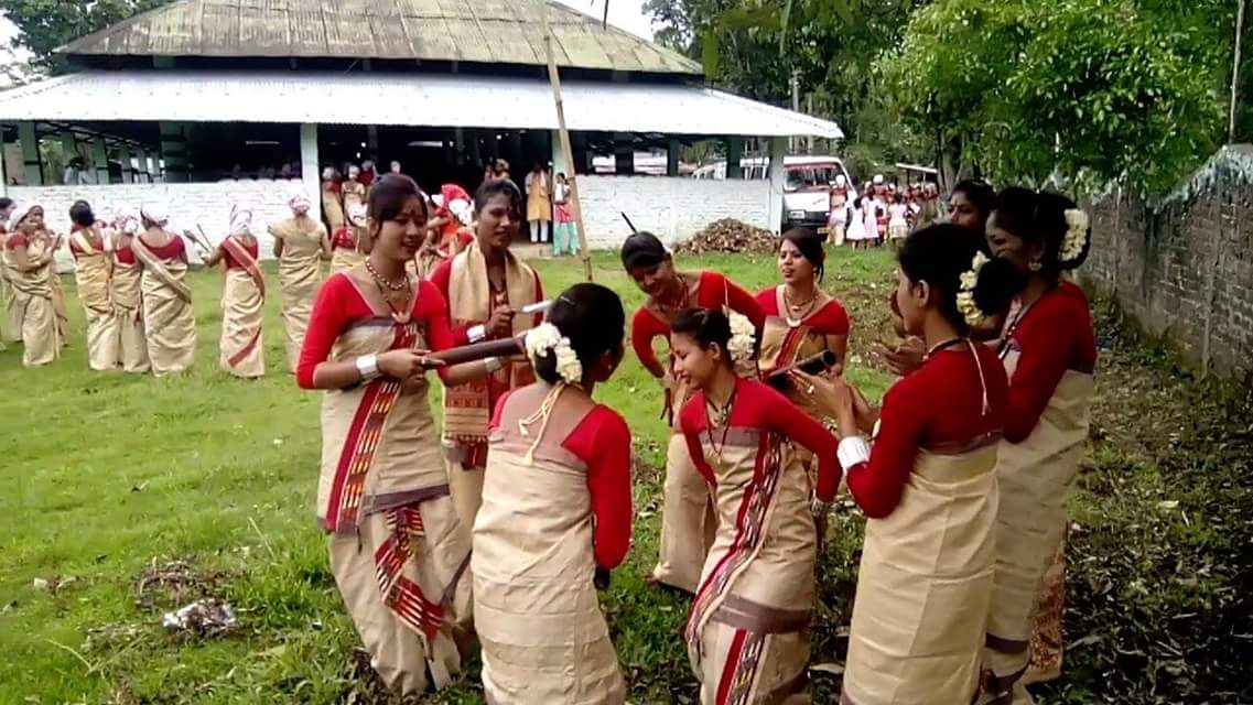 The Faat Bihu dance at Harhidewaloi has been performed in the same form since the 16th century.